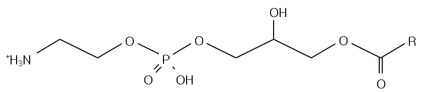 chemical structure of lysophosphatidylethanolamine